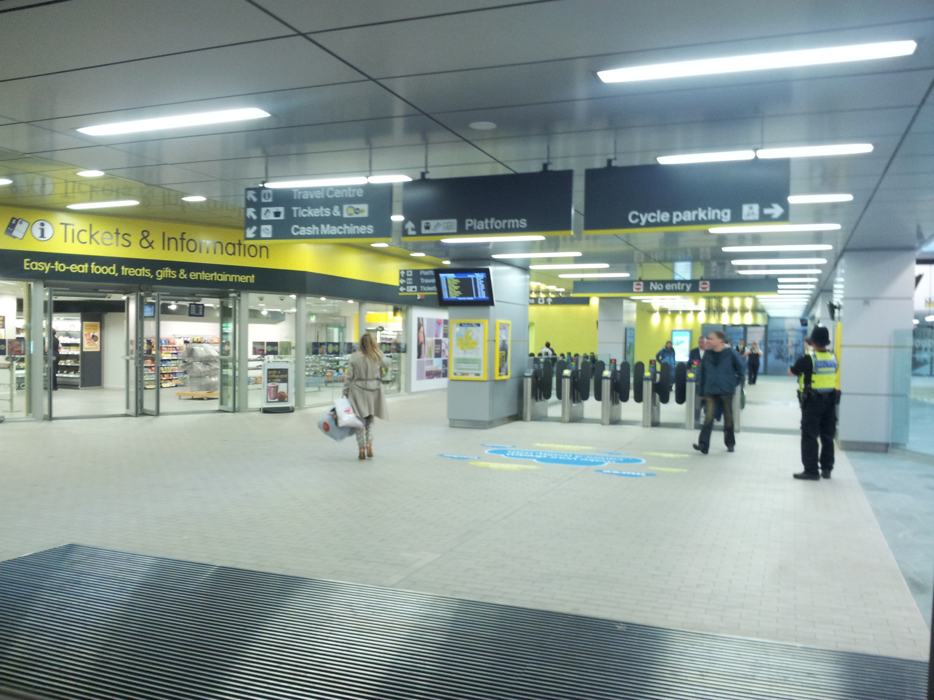 Liverpool Central Station after refurbishment.